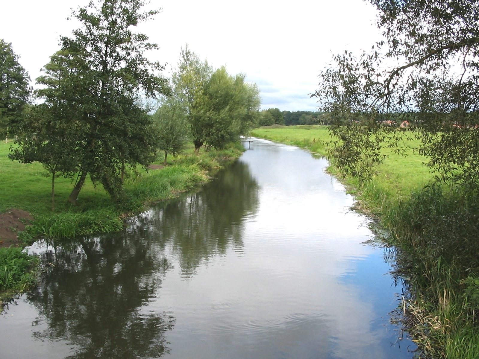 Alte Elde near Alt Eldenburg, Brandenburg, Germany